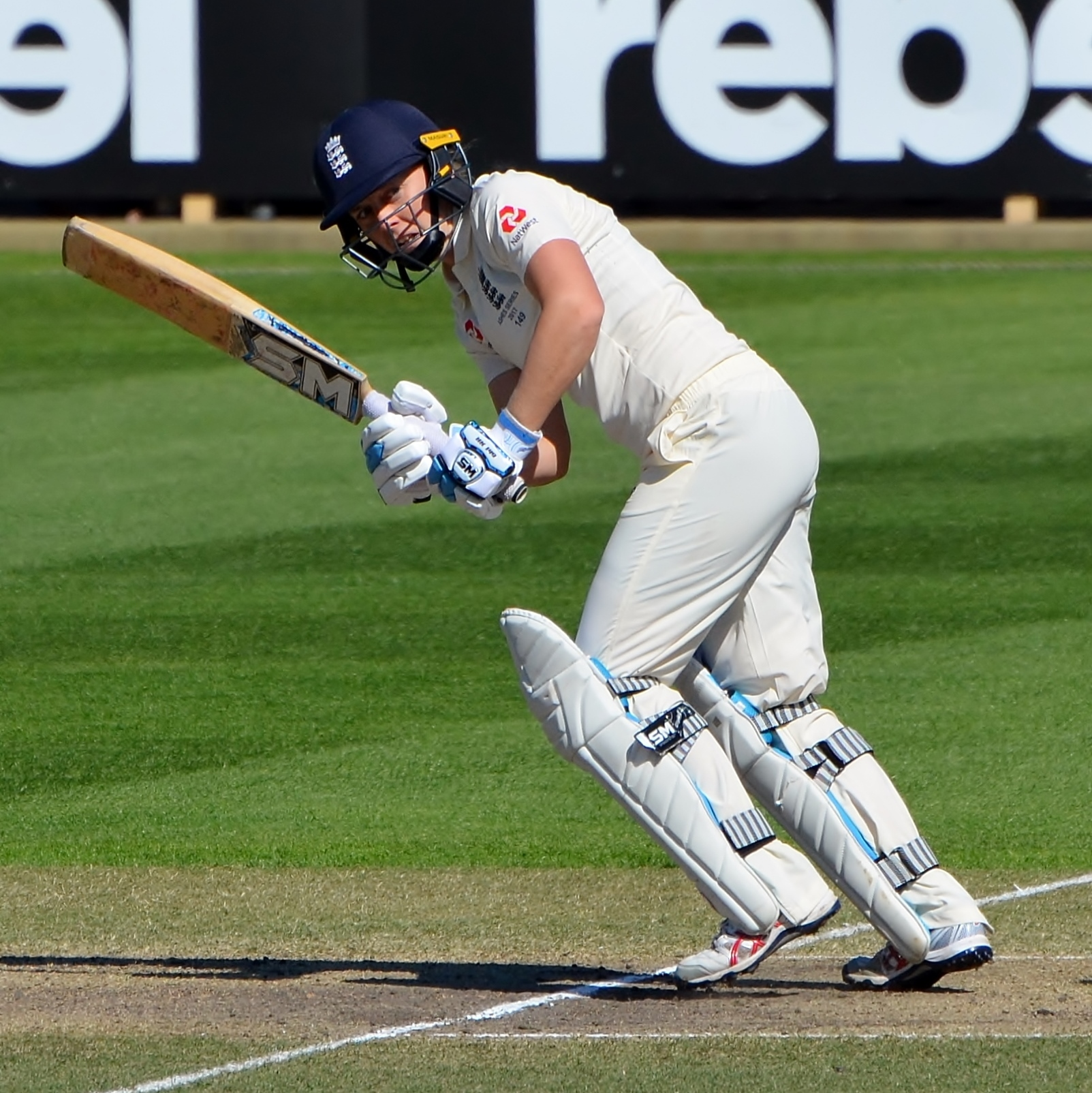 Heather Knight on her way to 79 not out on the final day of the 2017–18 Women's Ashes Test at North Sydney Oval.